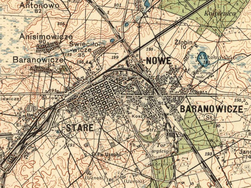 Old topographic map of Baranowicze, military map of Poland made by Polish Army before 1939